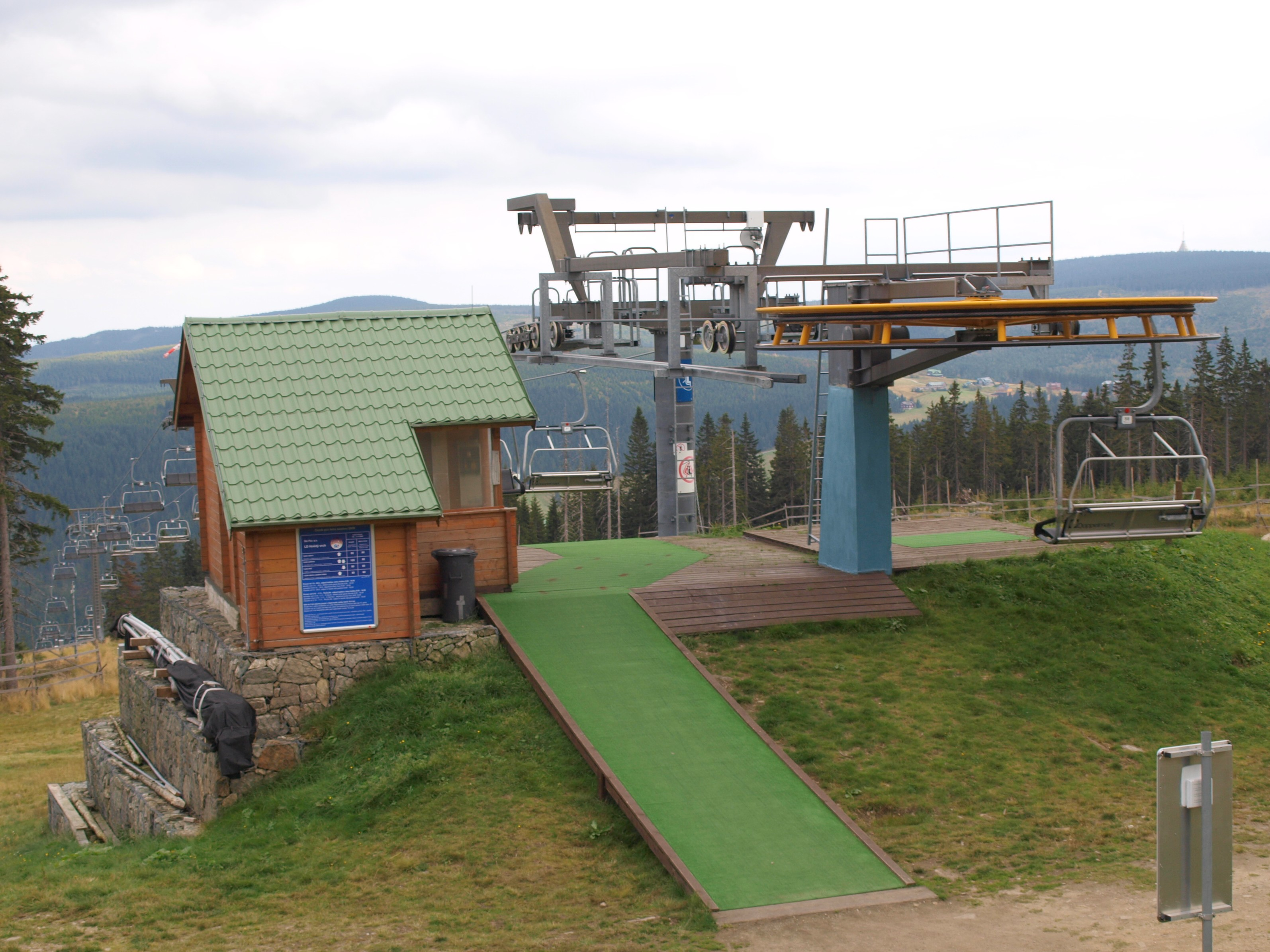 Upper station, Cableway Pec pod Sněžkou – Hnědý vrch, Krkonoše